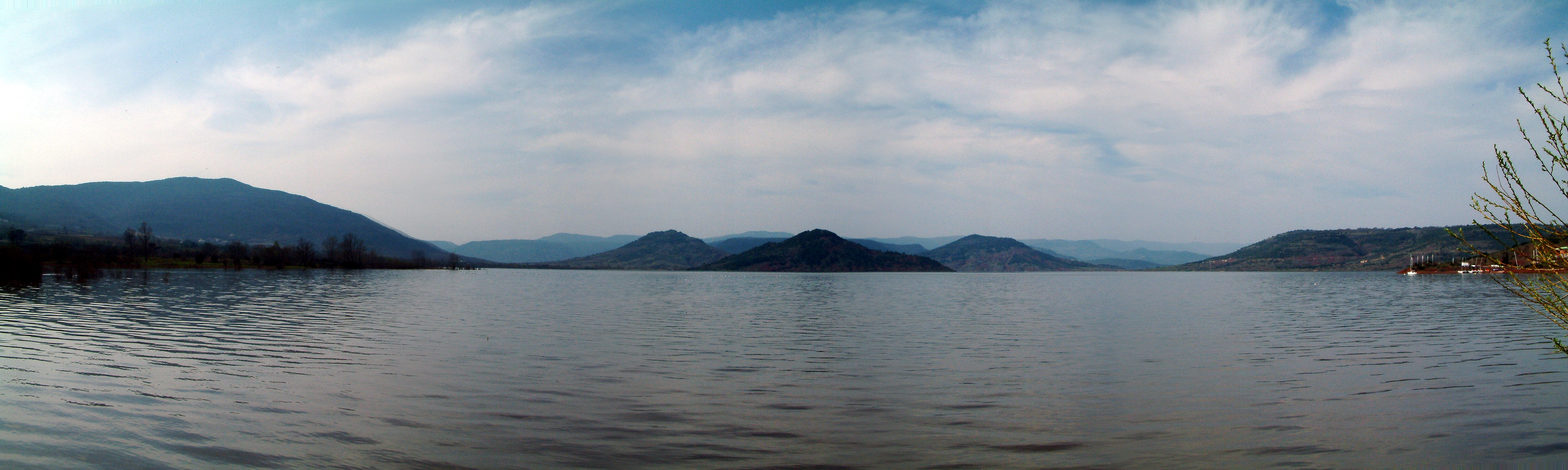 A panoramic view of the Salagou's Lake in south of France in the Hérault Department. the red ground visible on right is because of volcanic ground ("tuf").